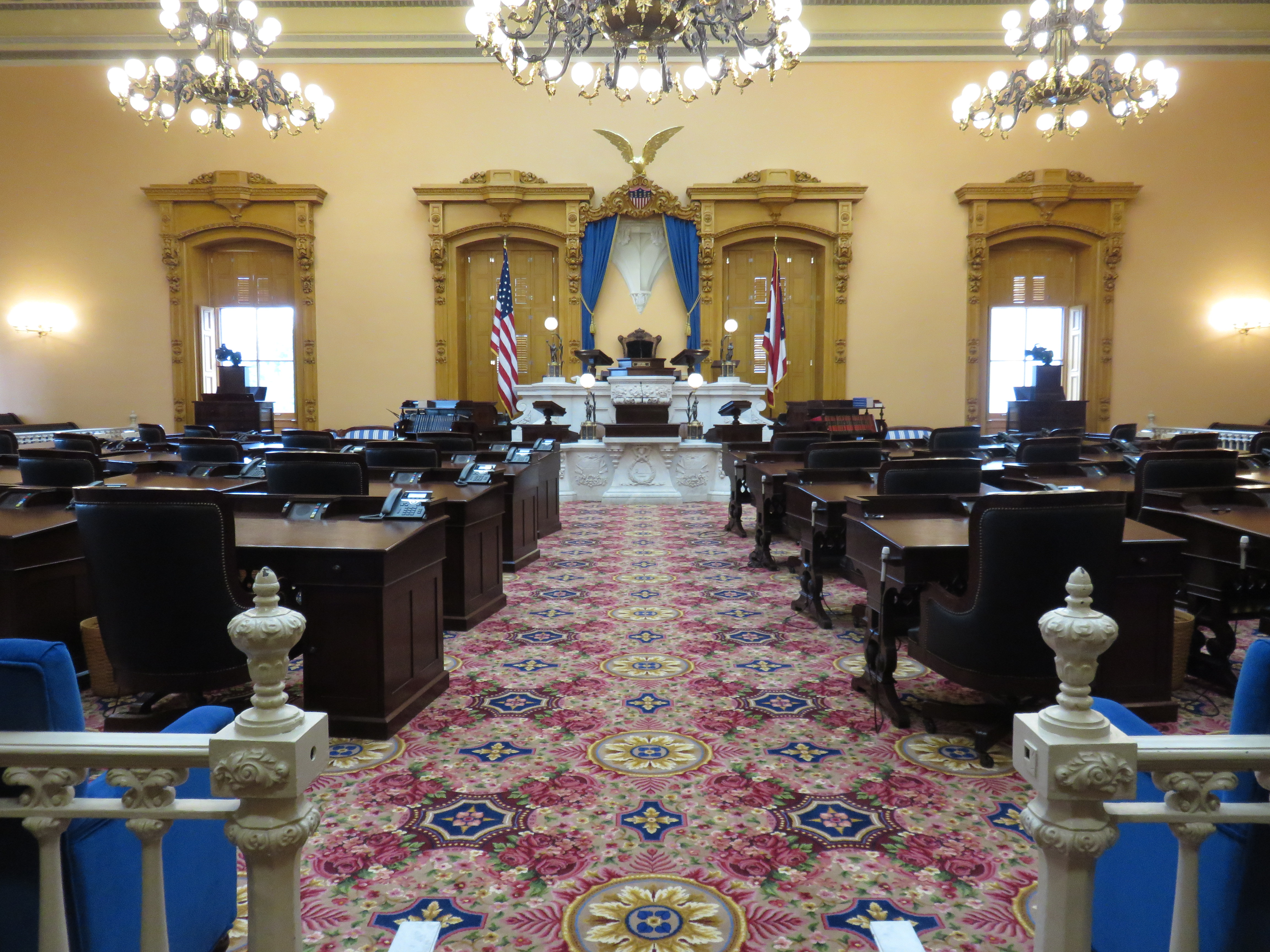 Ohio Senate Chamber in the Ohio Statehouse in 2018